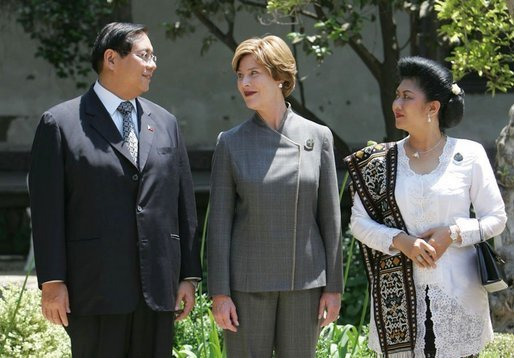 U.S. First Lady Laura Bush talks with Mr. Jose Miguel Arroyo of the Philippines and Mrs. Kristiani Herawati of Indonesia during a program for leaders' spouses during the APEC summit in Santiago, Chile, Nov. 20, 2004. White House photo by Susan Sterner.